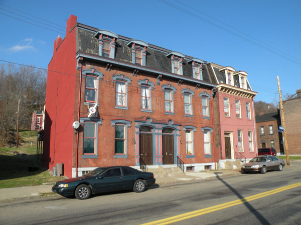 Picture of Old Allegheny Rows Historic District near 904 California Avenue in the California-Kirkbride neighborhood of Pittsburgh, Pennsylvania, on December 4, 2009. The row houses in this area date from circa 1870 to circa 1900, and this historic district is listed on the National Register of Historic Places. Architects: Herbert DuPuy, and others. Architectural style: Romanesque Revival, Other.